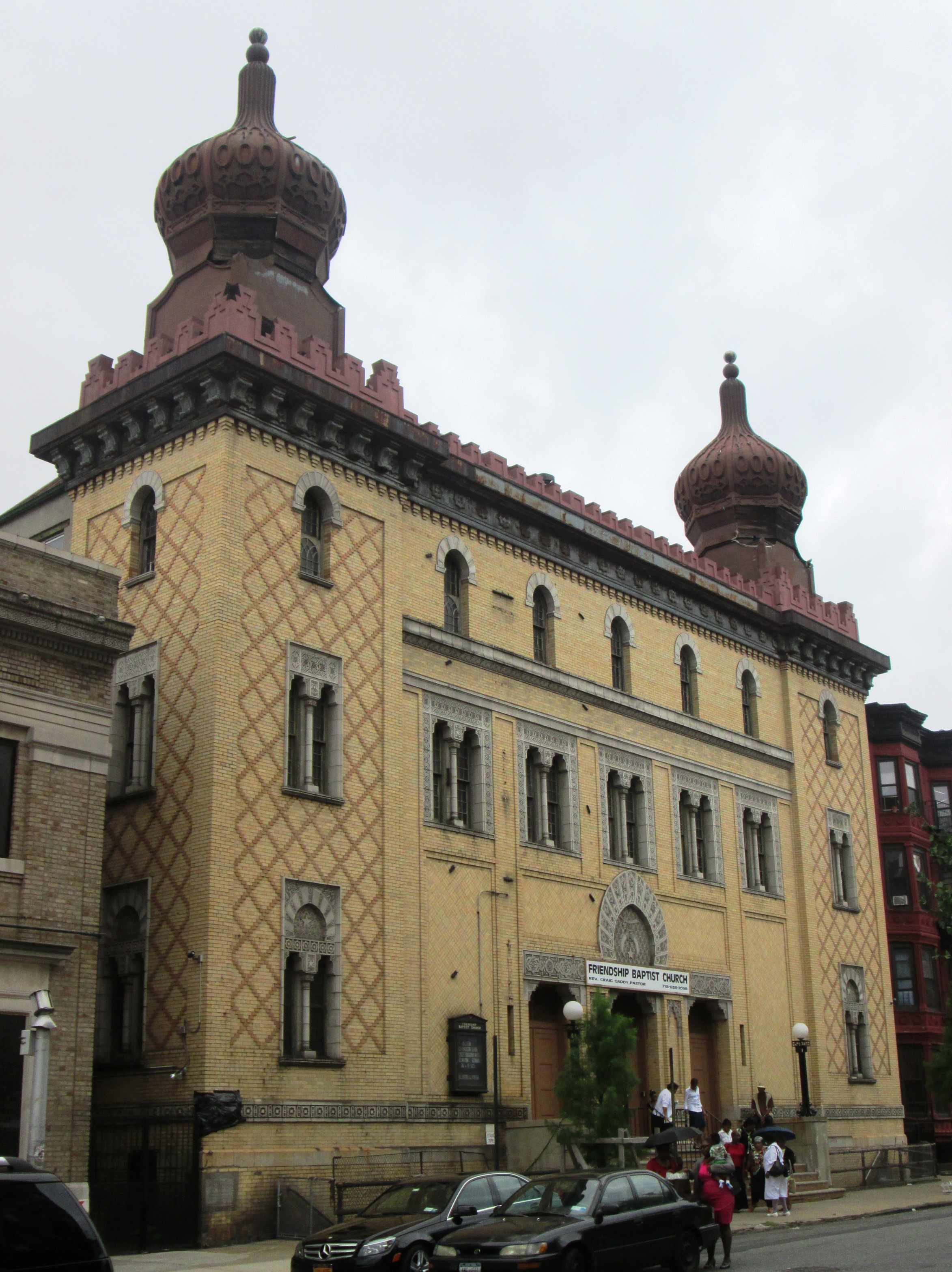 The Friendship Baptist Church at 92 Herkimer Street between Bedford and Nostrand Avenues in the Bedford-Stuyvesant neighborhood of Brooklyn, New York City was built in 1910 as the "Kismet Temple" of the Ancient Arabic Order of the Mystic Shrine, commonly referred to as "Shriners". It was designed by R. Thomas Short in the Eclectic Moorish Revival style. The building was converted to a movie theater in 1932, and became the Friendship Baptist Church in 1966. (Source: Brownstoner)